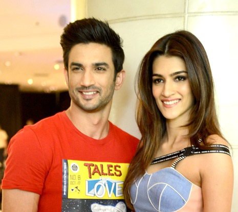 Sushant Singh Rajput, Kriti Sanon promote ‘Raabta’ in Delhi